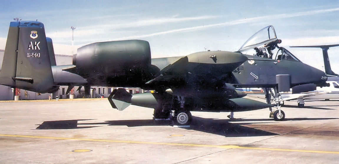 18th Tactical Fighter Squadron - Fairchild Republic A-10A Thunderbolt II - 80-0240